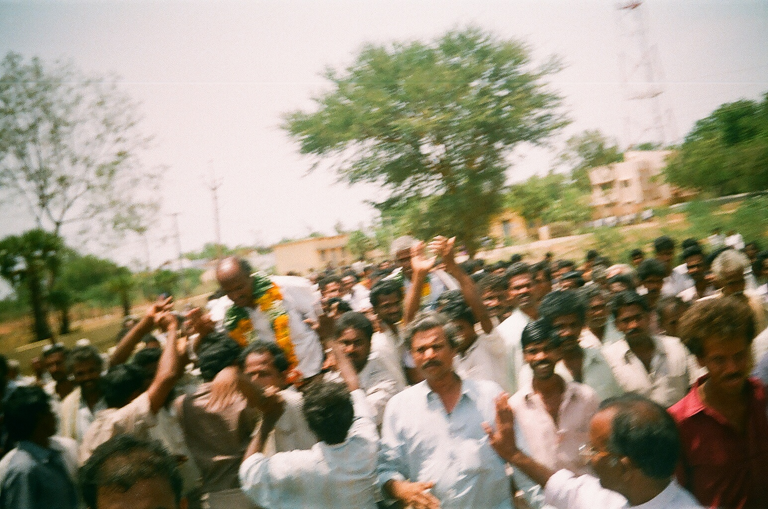 MPTC Members WELCOME